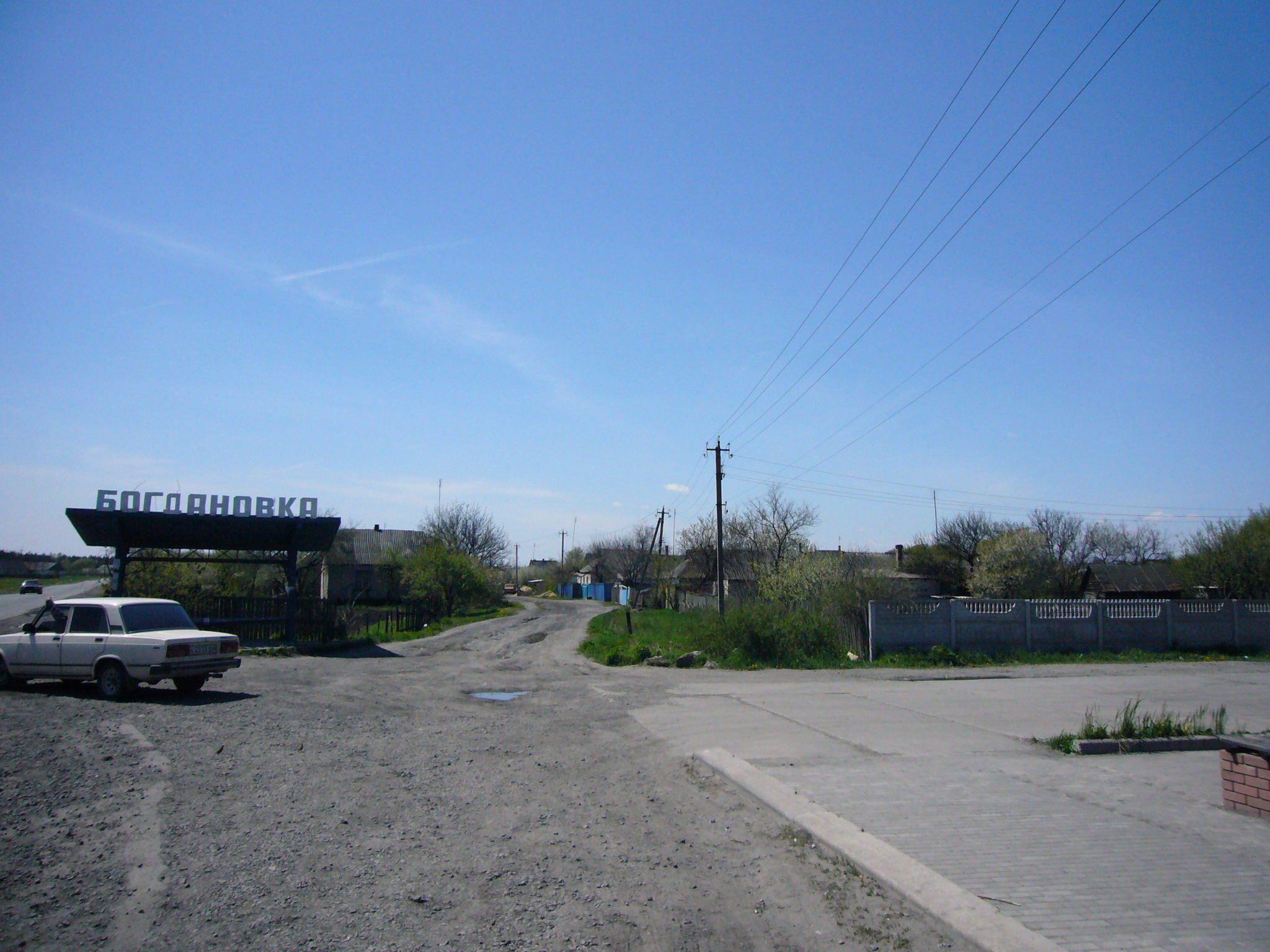 Village of Bogdanivka near Ternivka, Dnipropetrovsk Oblast, Ukraine